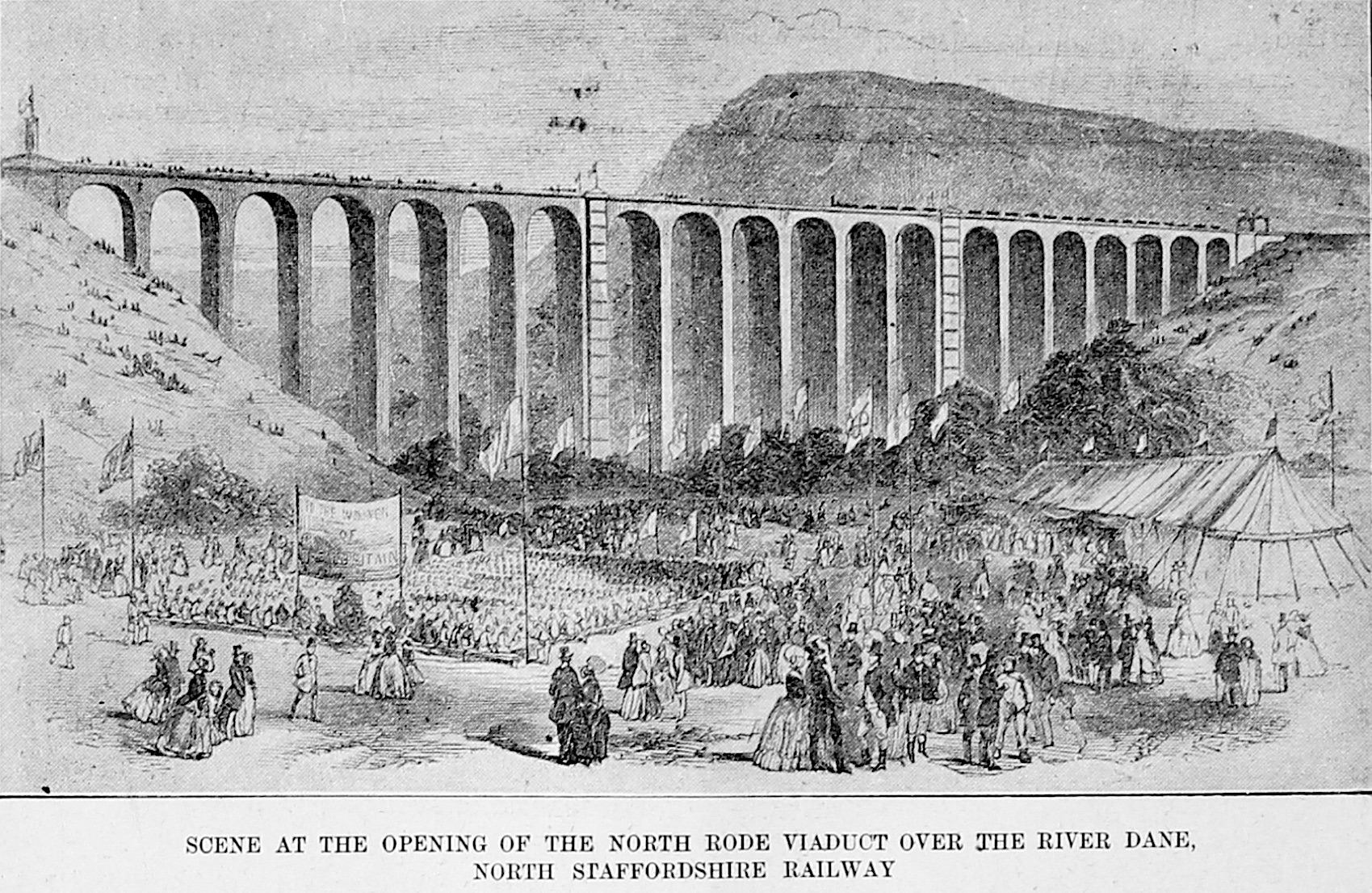 Opening of the viaduct over the River Dane in 1848